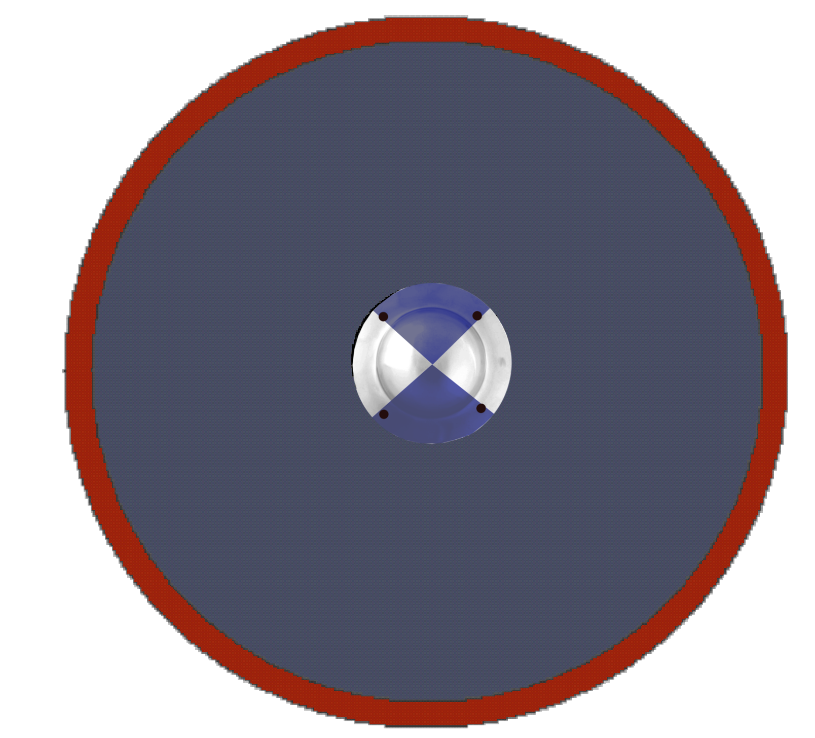 Shield pattern o.t. Comites seniores, a vexillationes palatinae in the Magister Equitum's cavalry list, and therefor the entire field army, in the Notitia Dignitatum occ. assigned to the Magister Peditum's Italian command.